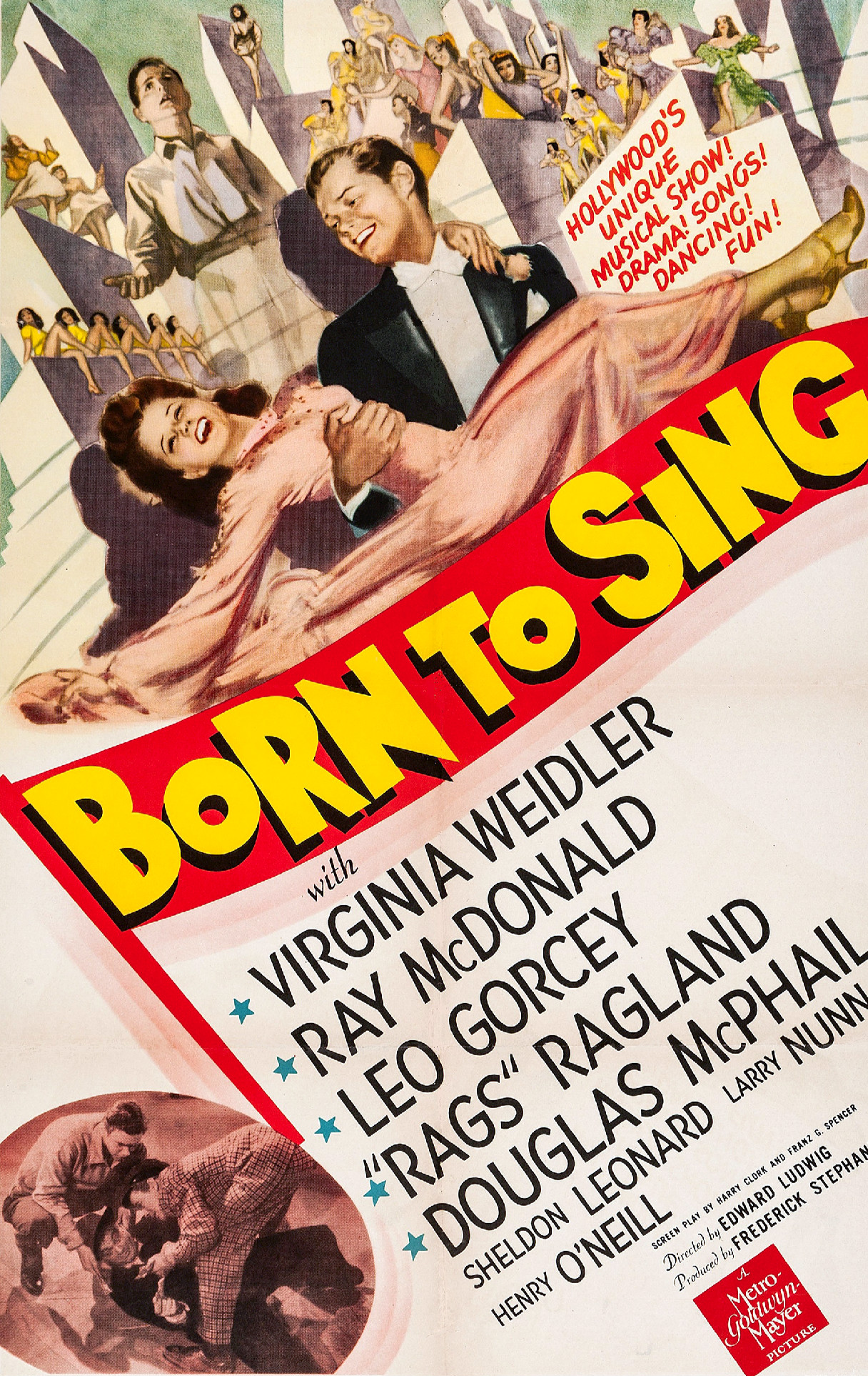 Poster for the 1942 film Born to Sing.. The item has no copyright markings on it as can be seen in the links above and the uncropped upload. At bottom left is Litho in USA and #6455. At bottom right is Tooker Litho Co. NY-they printed the poster.